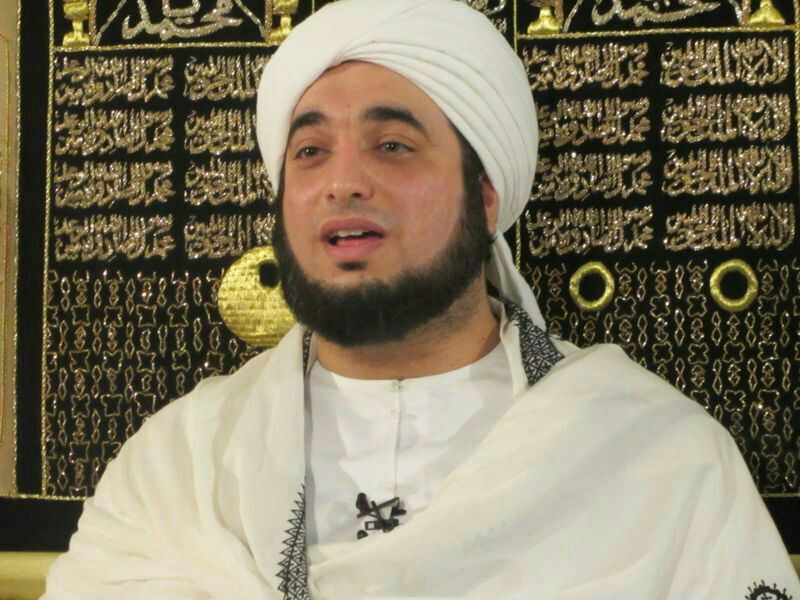 Awn Qaddoumi